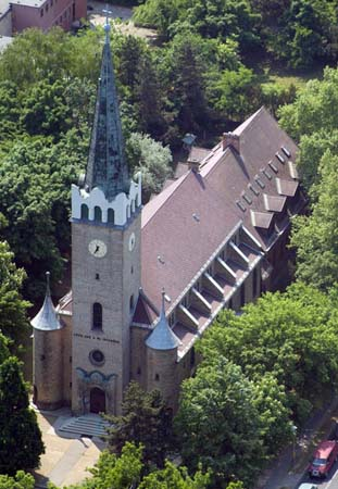 Budapest, district XVII, Hungary, aerial photography